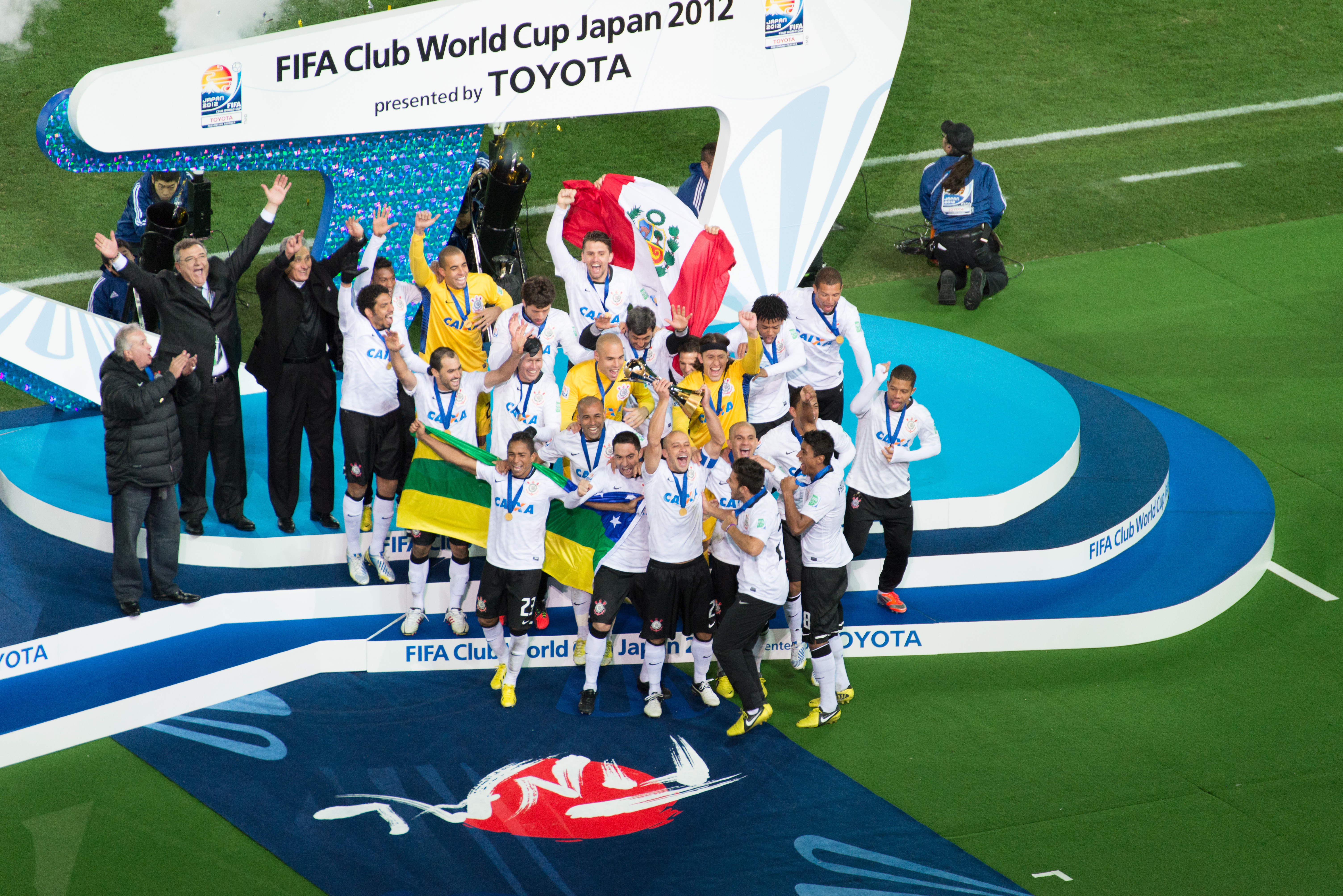 Brazilian team Corinthians celebrating their victory. On final, they won against Chelsea FC (1-0)